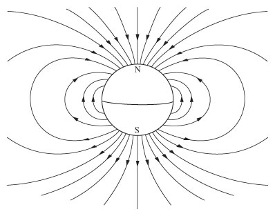 Dipole field from NASA. Copied from link] Note that, the "N" and "S" (north and south) poles are labeled here geographically, which is the opposite of the convention for labeling the poles of a magnetic dipole moment. For a version that is labeled accordign to the physical convention for magnets, see Image:Dipole field.PNG. 19:45, 26 September 2005 Heron 398x313 (23432 bytes) (Reverted to earlier revision) 18:47, 26 September 2005 Heron 398x313 (47509 bytes) (Reversed the field line arrows, which were pointing in the wrong direction.) 00:22, 1 May 2004 Kevin Saff 398x313 (23432 bytes) (Dipole field from NASA.)